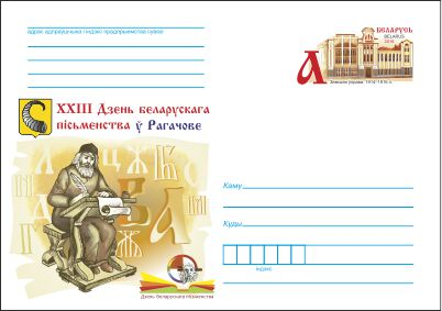 23th Day of Belarusian writing in Rahačoŭ.